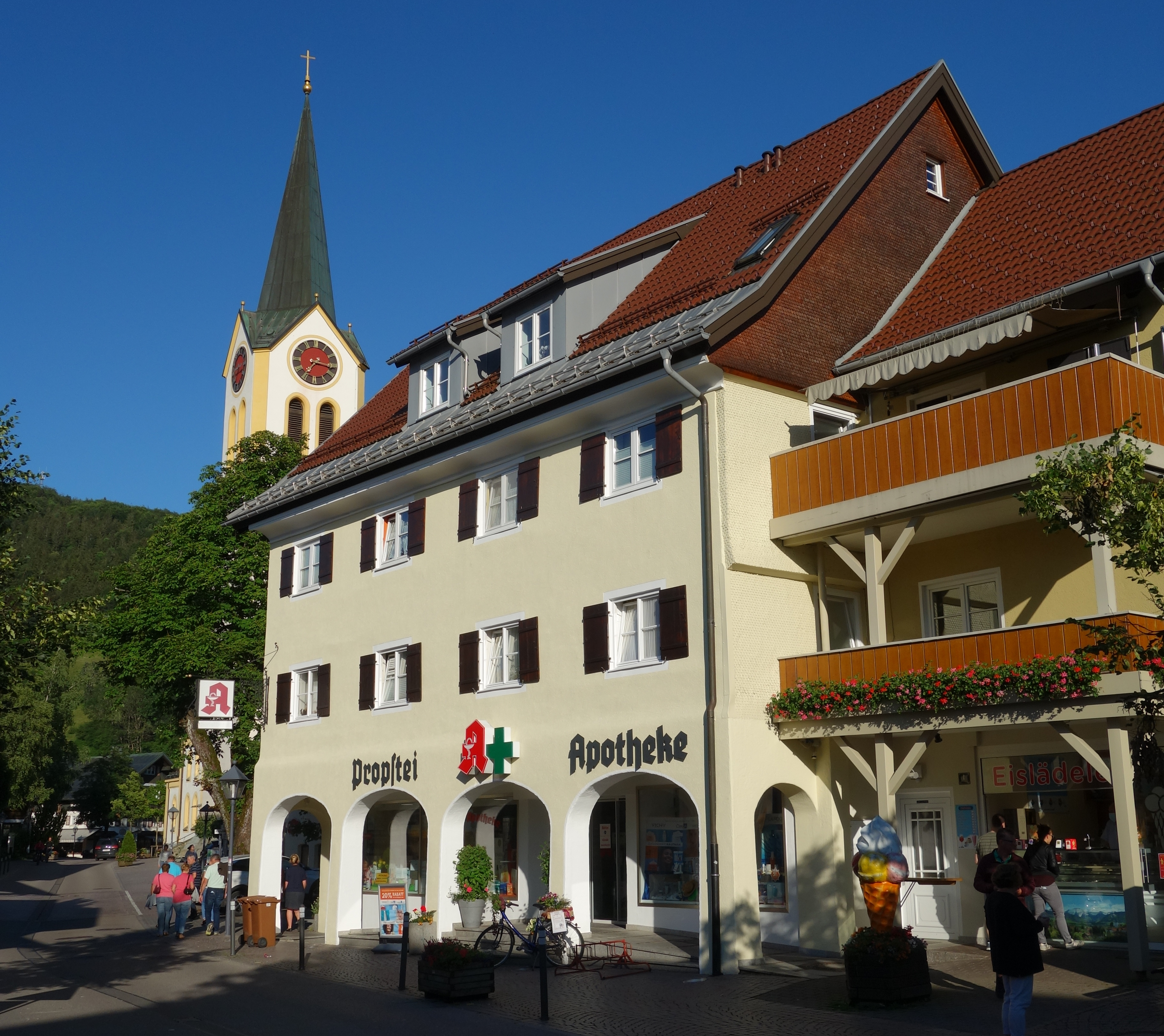 North-western view of the building "Propstei" in Oberstaufen , Oberstaufen municipality , Oberallgäu district, Bavaria state, Germany.